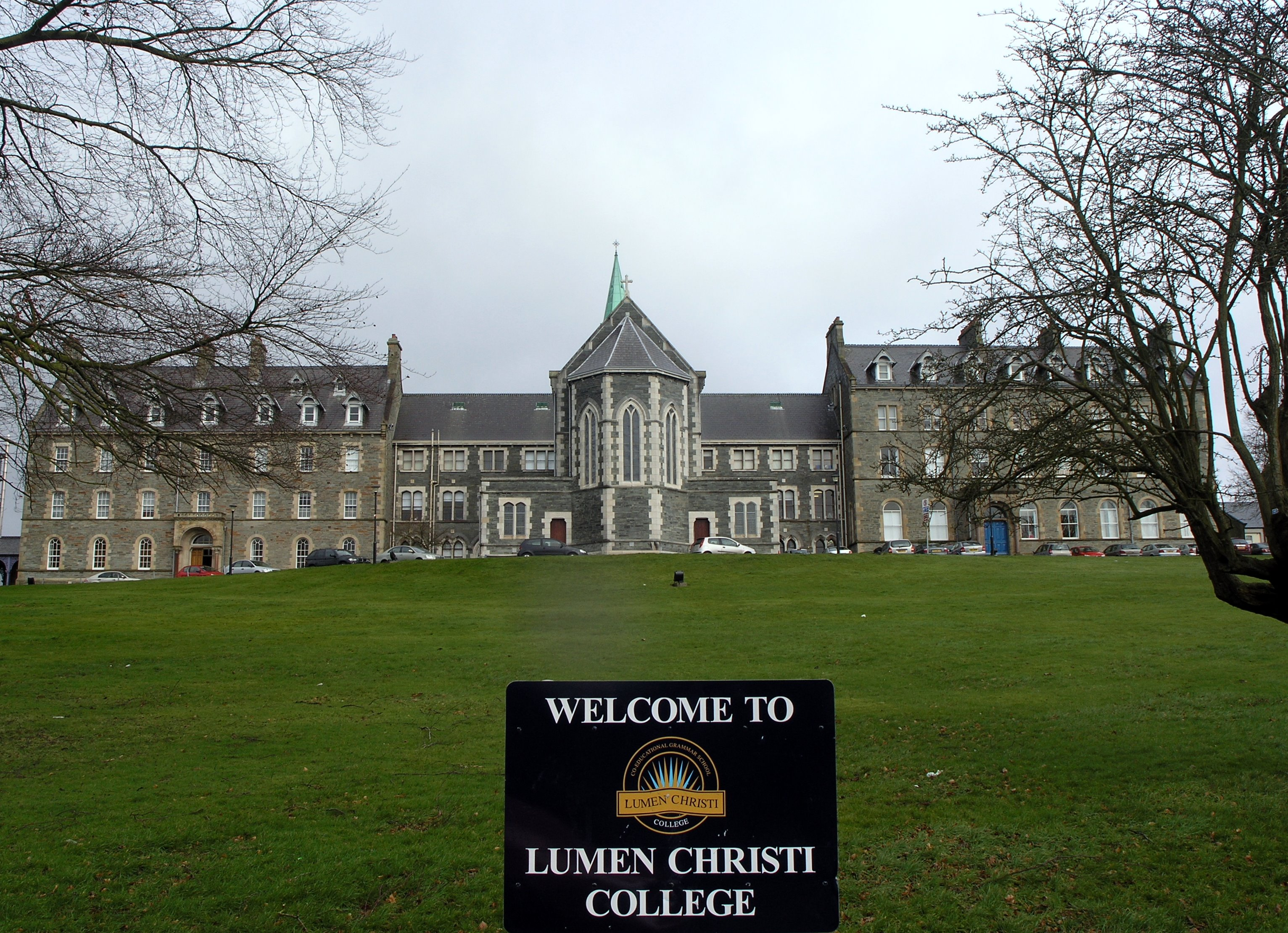 Lumen Christi College, Derry, Northern Ireland.